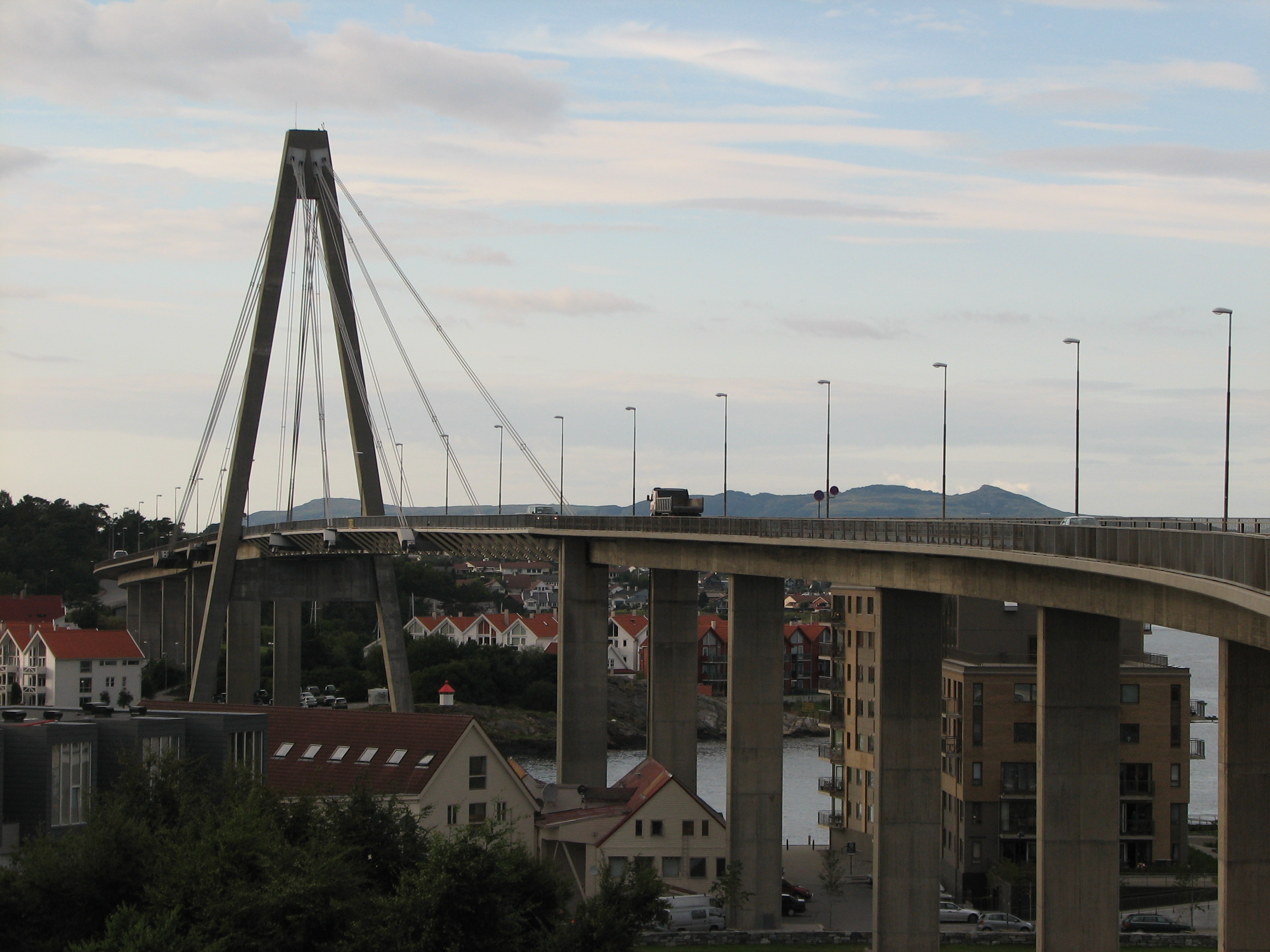 Stavanger - bridge Česky: Stavager - most